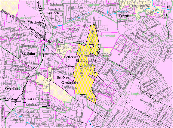 U.S. Census 2000 reference map for Normandy, Missouri